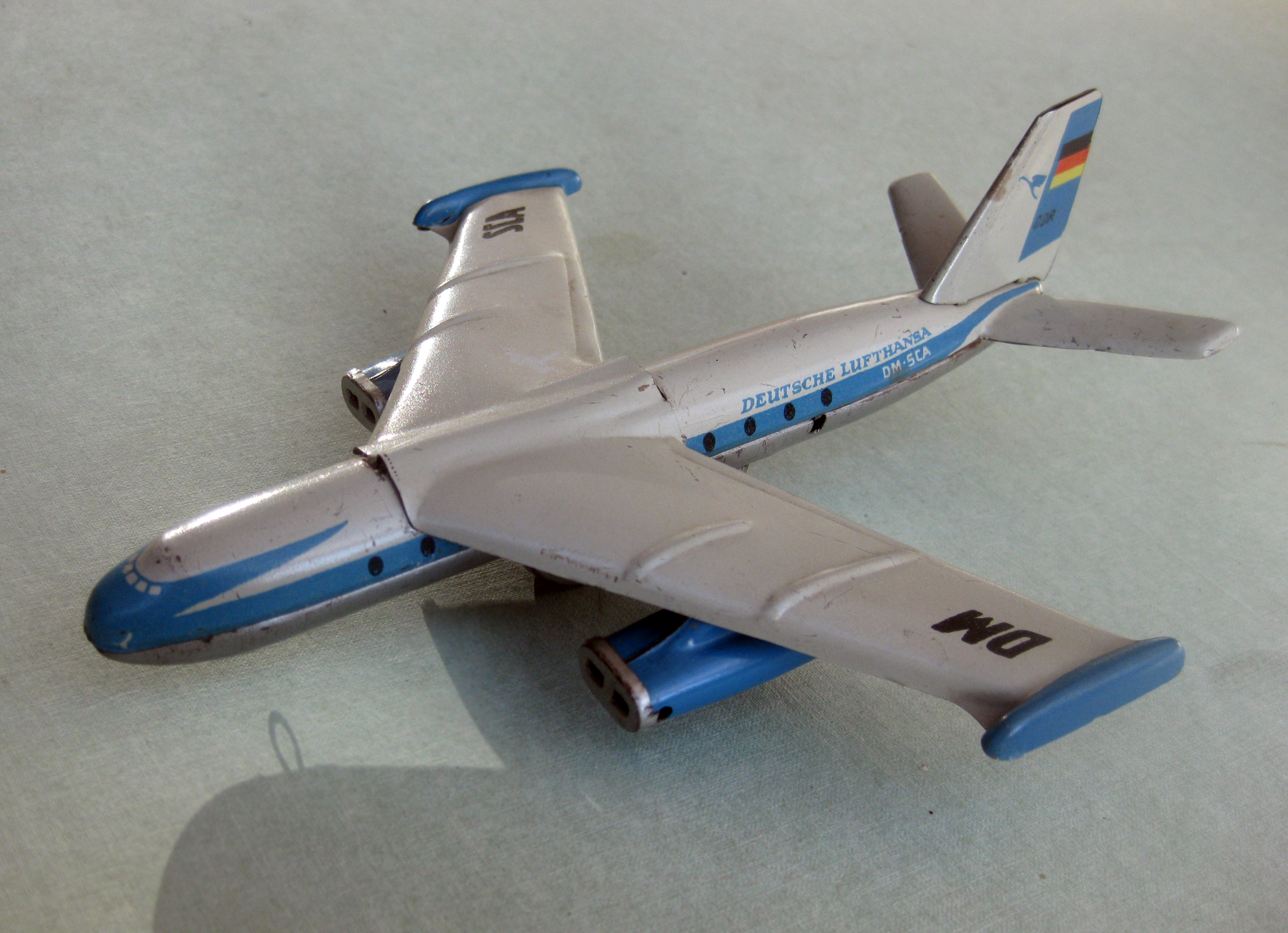 Toy of the airplane "152" in the livery of East German airline "Deutsche Lufthansa"